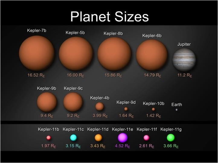 A comparison of the planets located in the Kepler-11 system, as compared to the planets previously discovered by Kepler (Kepler-4b thru Kepler-10b) and the planets Jupiter and Earth.